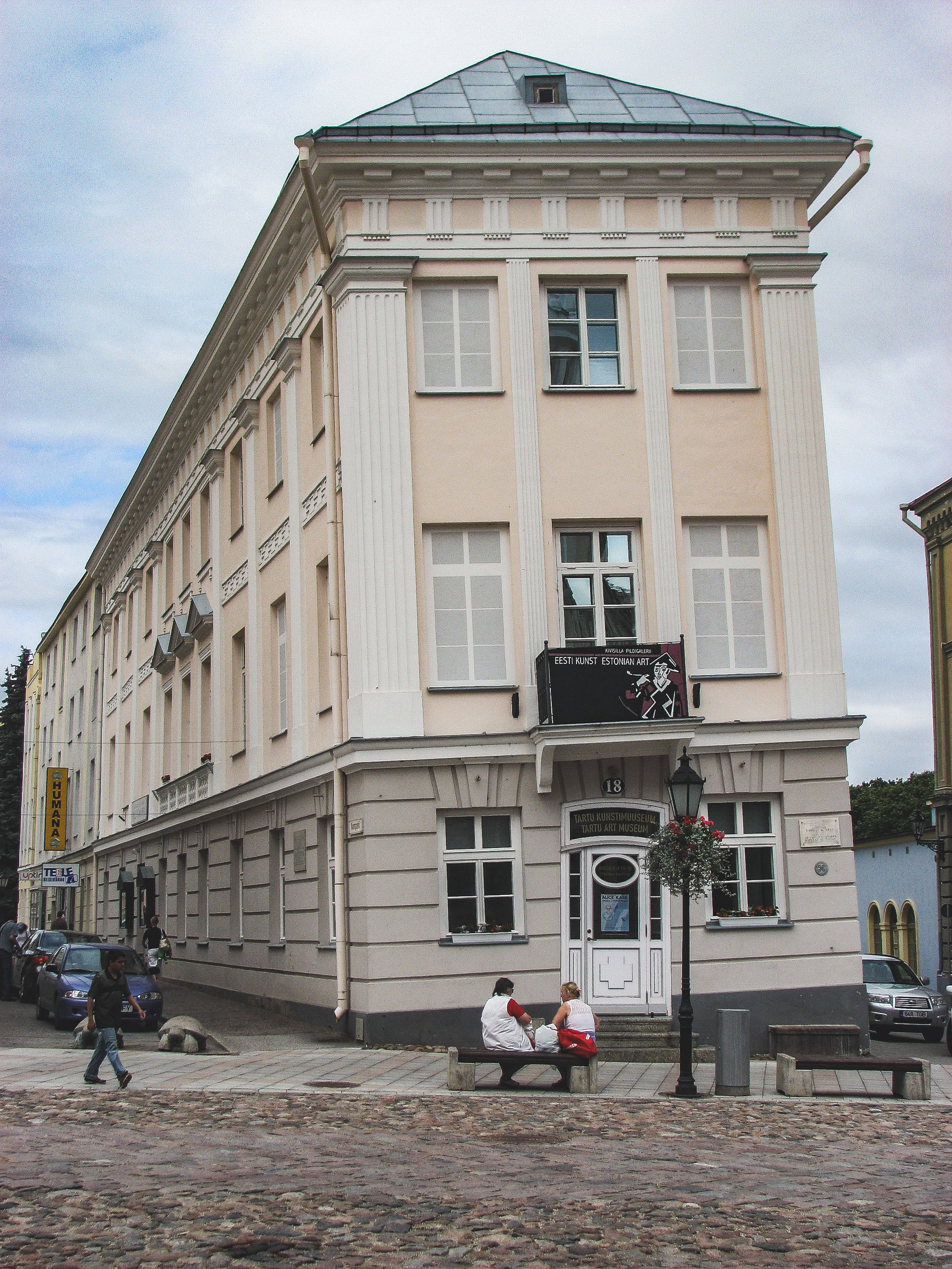 Kompanii Street, Tartu, Estonia. Tartu Art Museum.